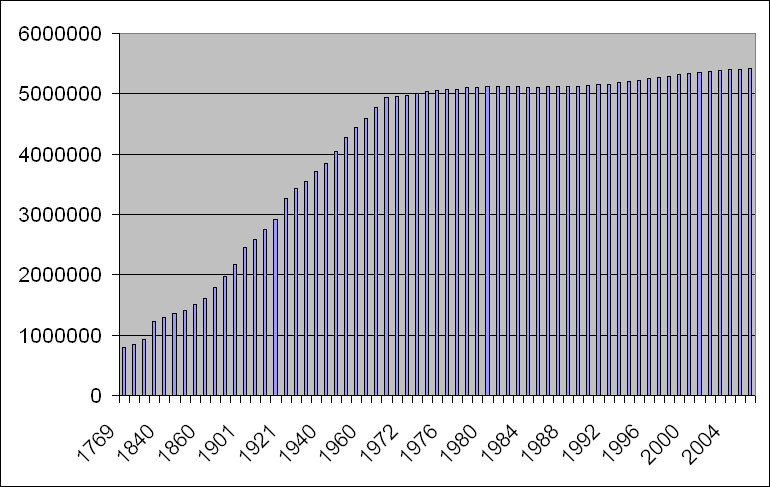 Denmark's population (1769-2006). Created July 3, 2006 with data from Danmarks Statistik.